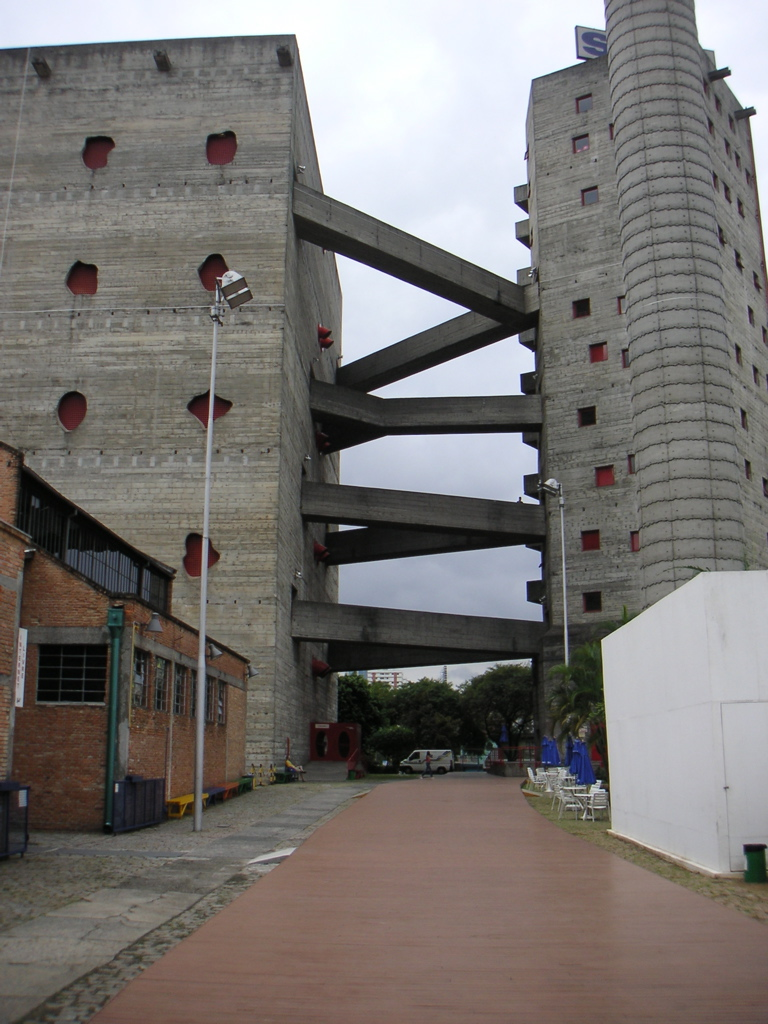 The SESC Pompeia is a cultural center built in the early 1980s and designed by archited Lina Bo Bardi. The building is a sort of playful brutalism--only in Brasil would those two words ever go together.